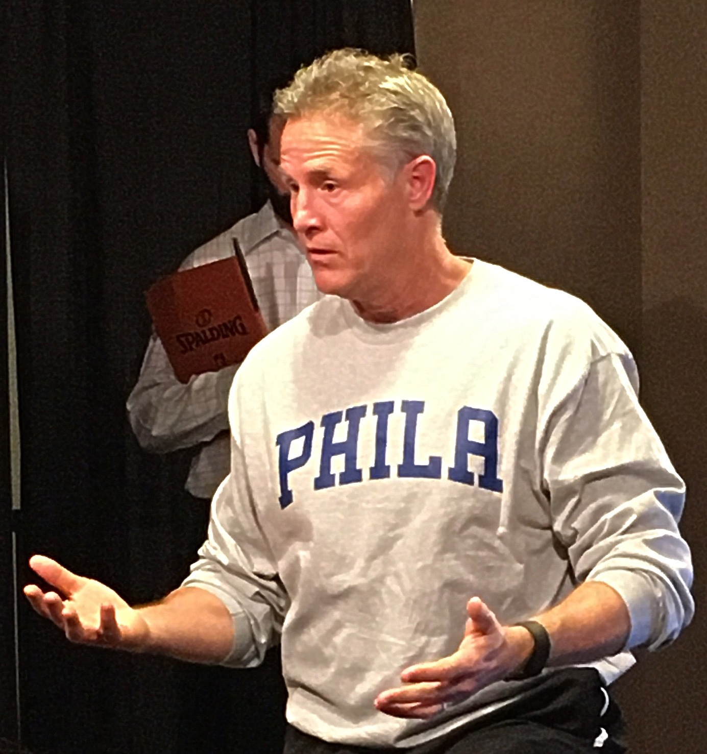 Brett Brown Speaking